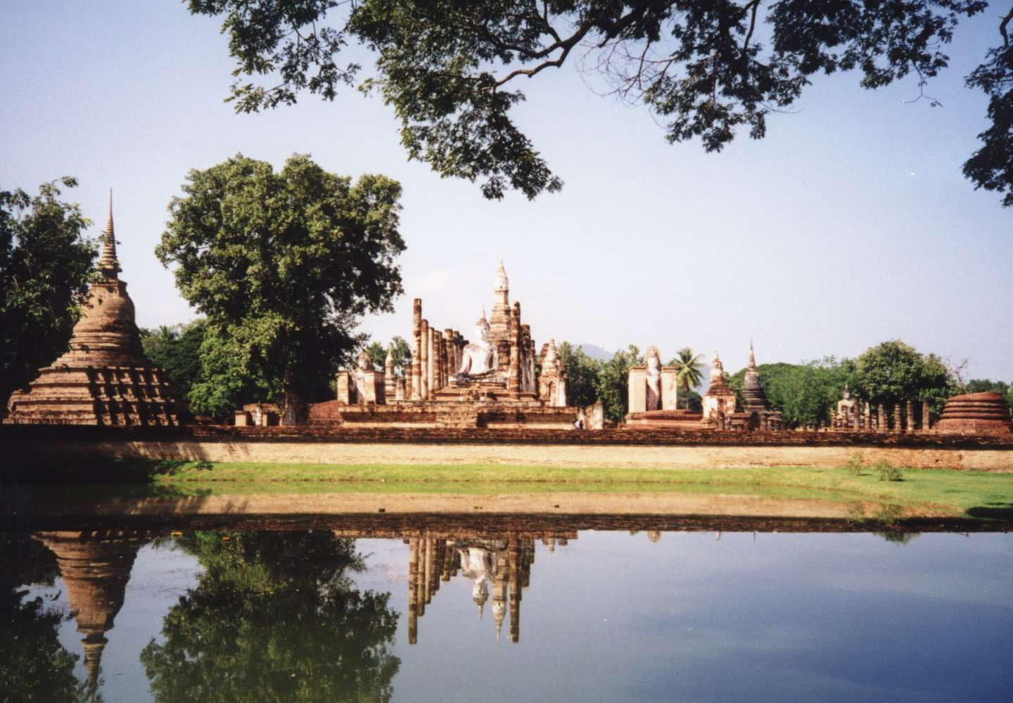 Sukhothai historical park, Sukhothai province, Thailand Photo taken by User:Ahoerstemeier on October 28 2000.